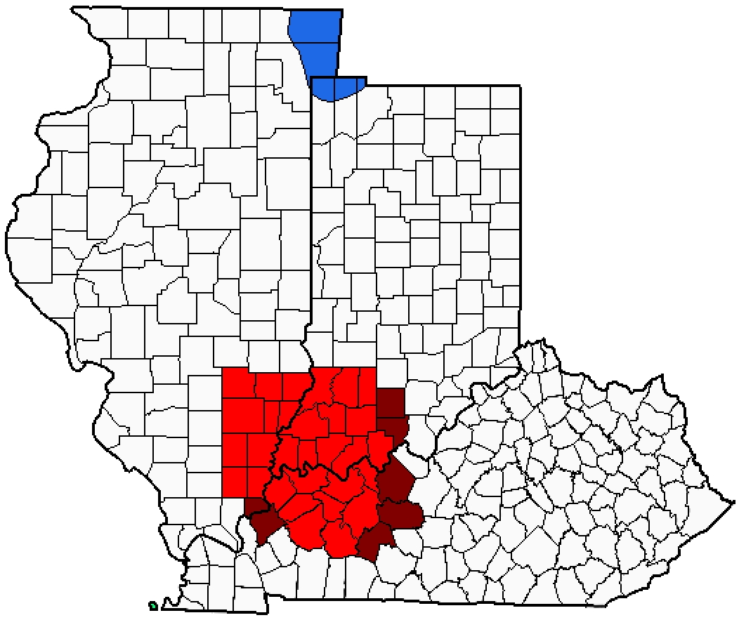 Map of the Illinois-Indiana-Kentucky Tri-State Area imposed over WTVW's Viewing Area.